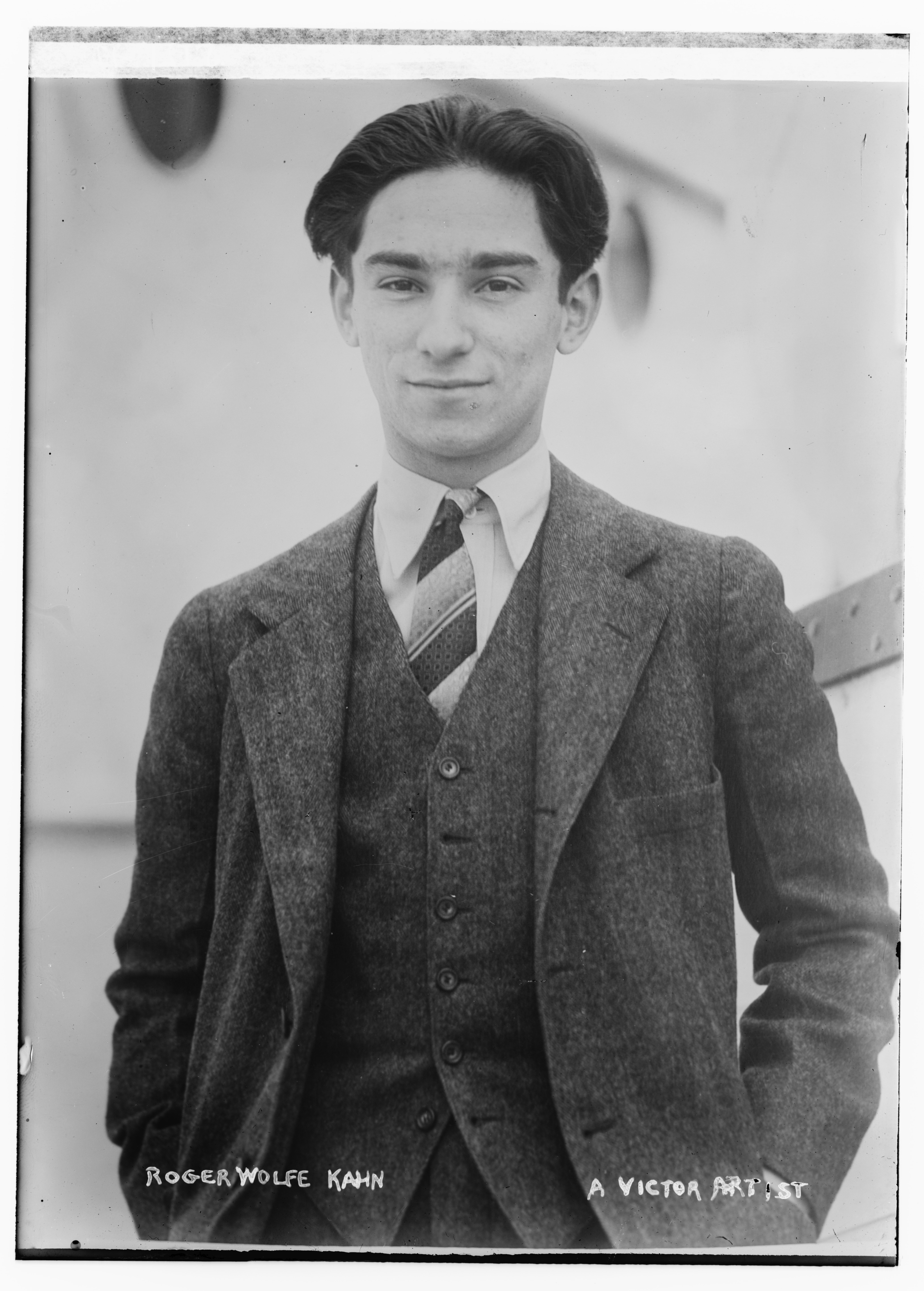 Roger Wolfe Kahn circa 1919